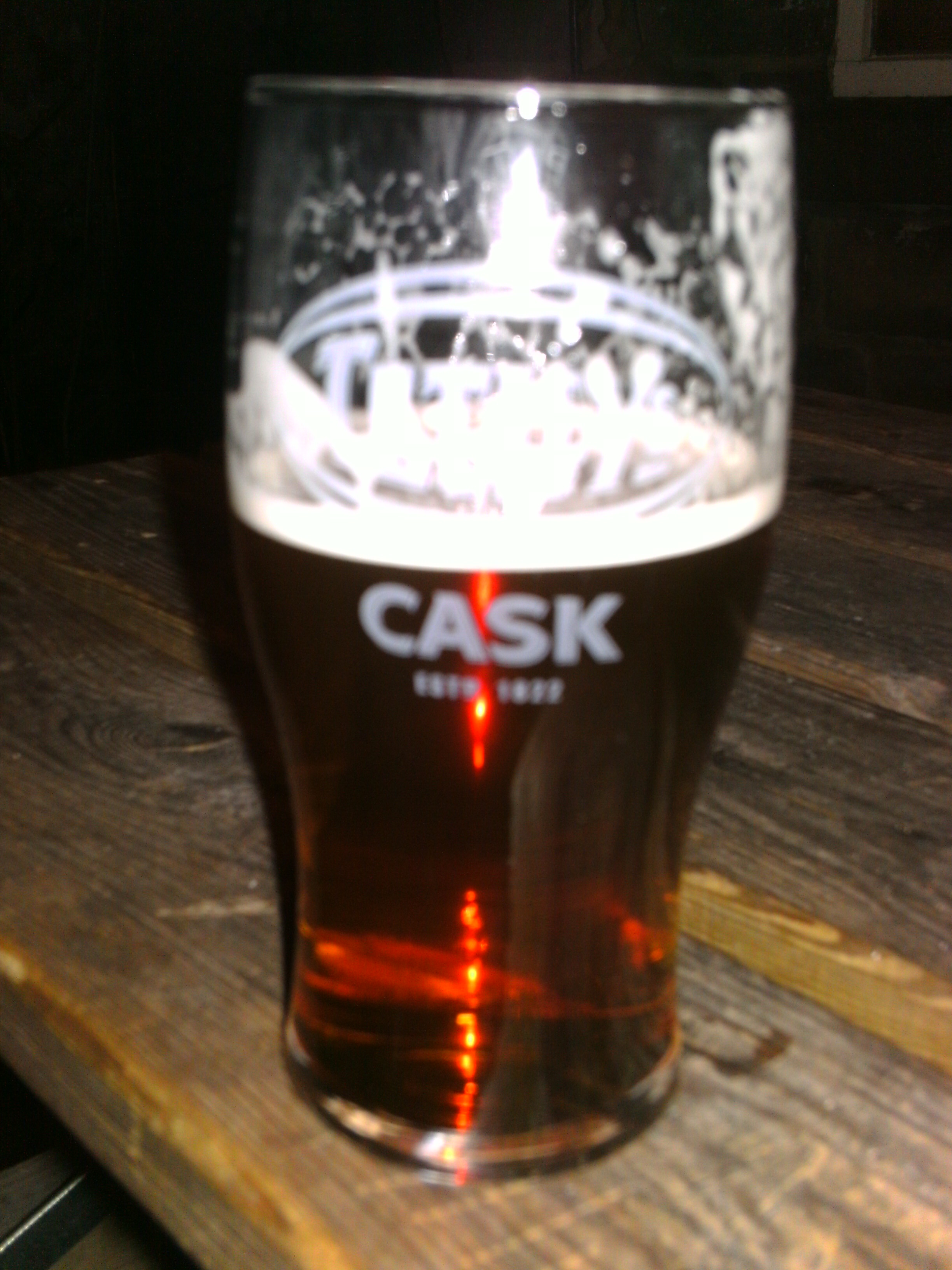 A pint of Tetley's Cask. Taken shortly after buying from the New Inn in Wetherby, West Yorkshire.